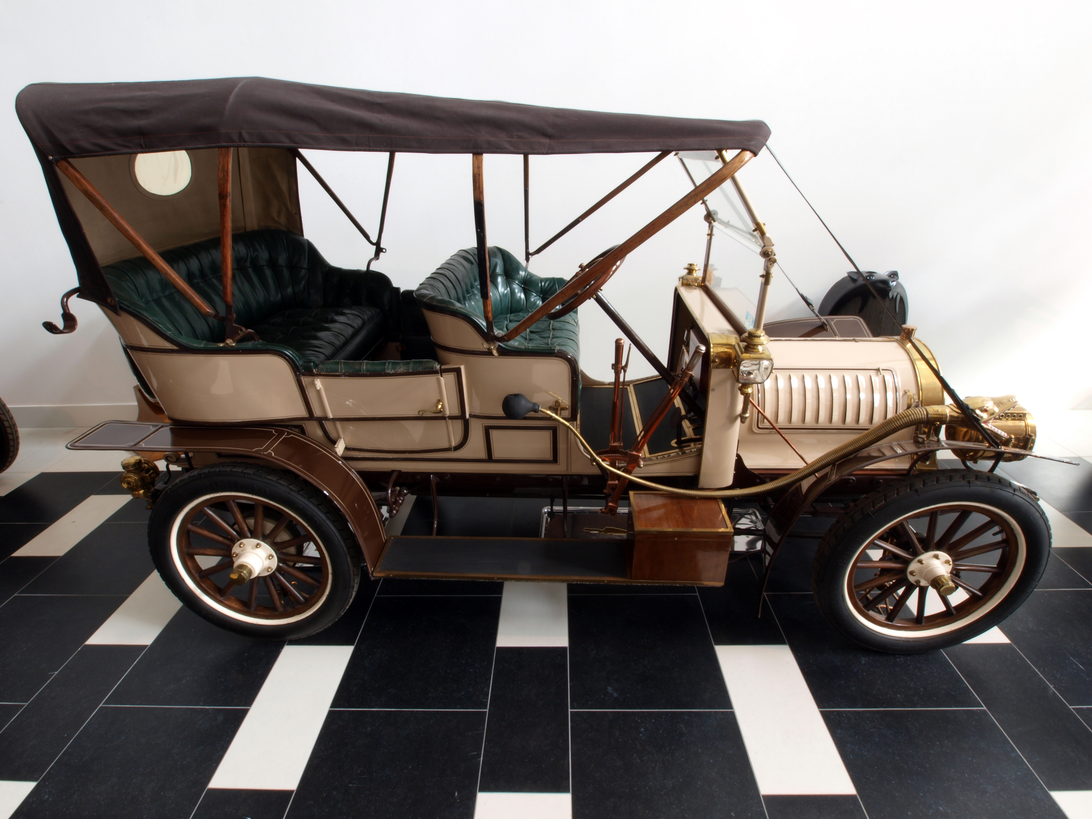 1907 Spijker 15/22 HP Double Phaeton. Photographed at the Louwman museum, The Netherlands.